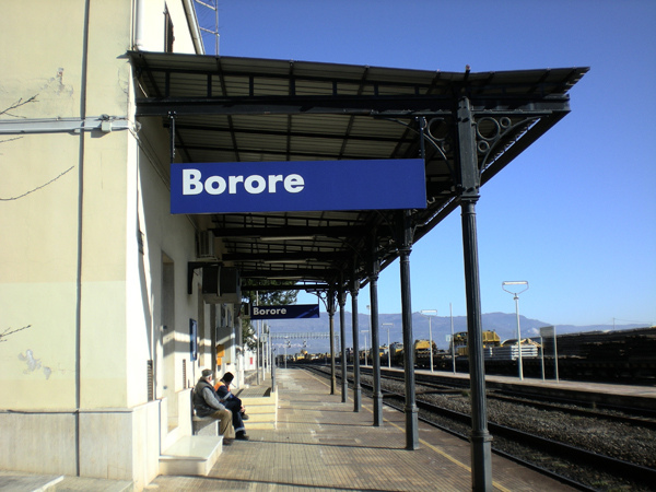 The railway station of Borore, Sardinia, Italy